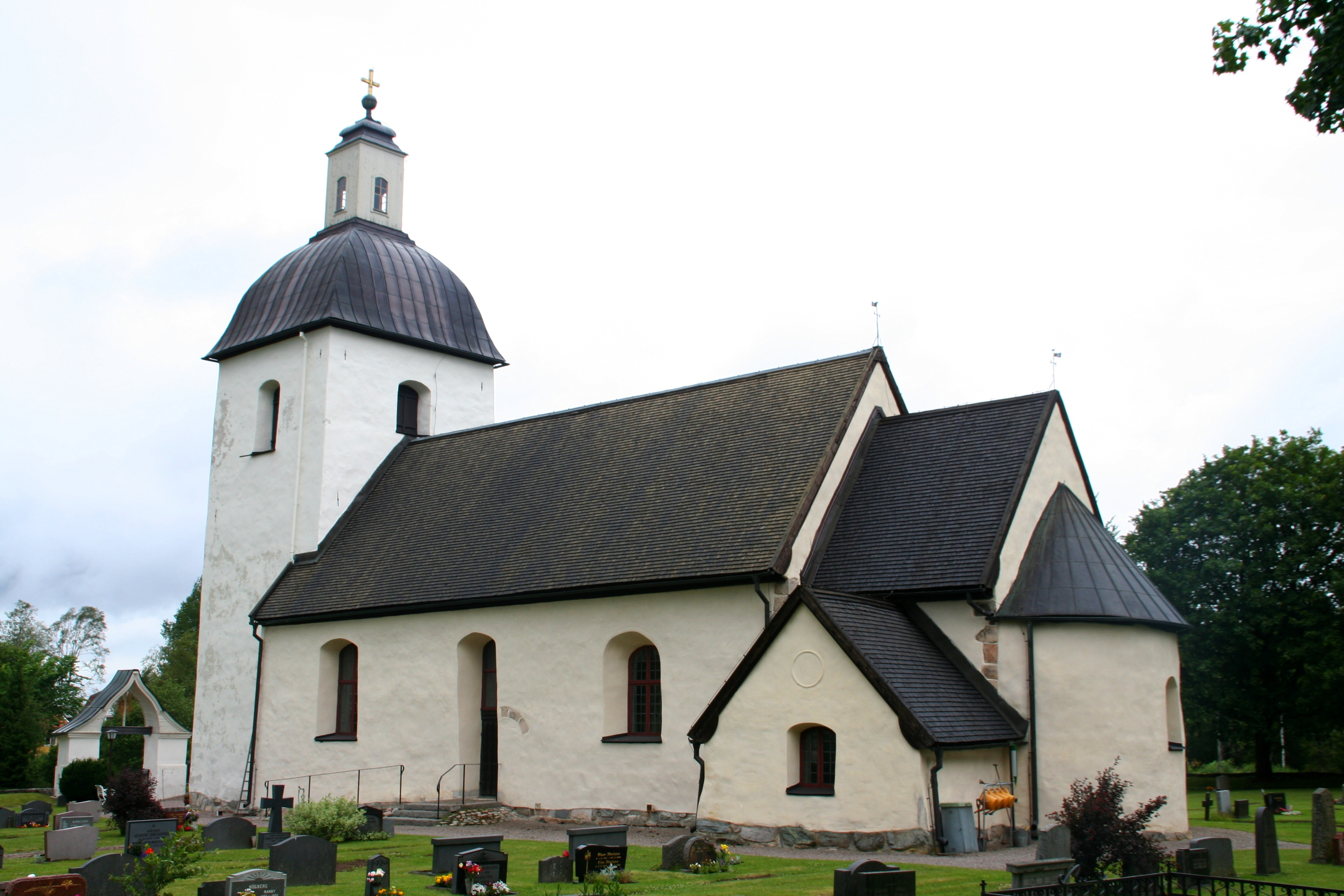 Hylletofta Church, Sweden.